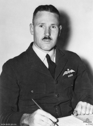 Sourced from: AWM Caption: 1942-05-12. GROUP CAPTAIN V.E.S. HANCOCK, ASSISTANT DIRECTOR OF PLANS, ALLIED AIR FORCES IN THE SOUTH WEST PACIFIC. This photo was taken in 1942 and is out of copyright under Australian law.